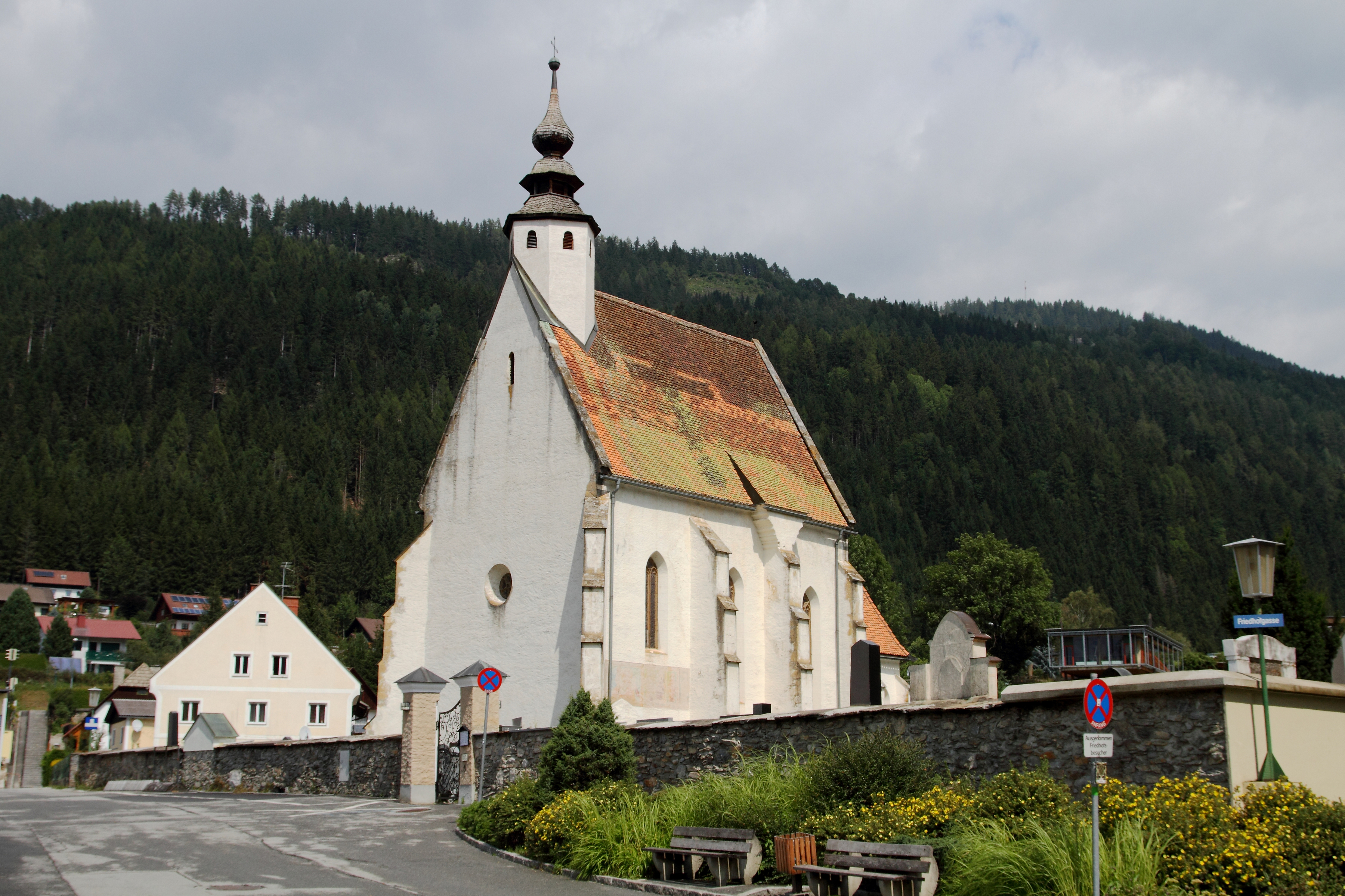 Cemetery church St. Anne and cemetery wall in Murau.